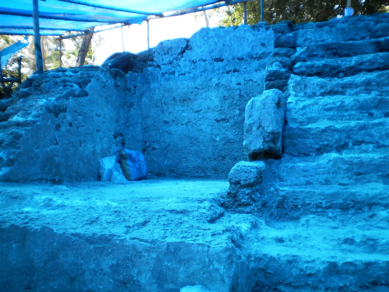 Kottappuram Fort under excavation - Muziris Heritage Project